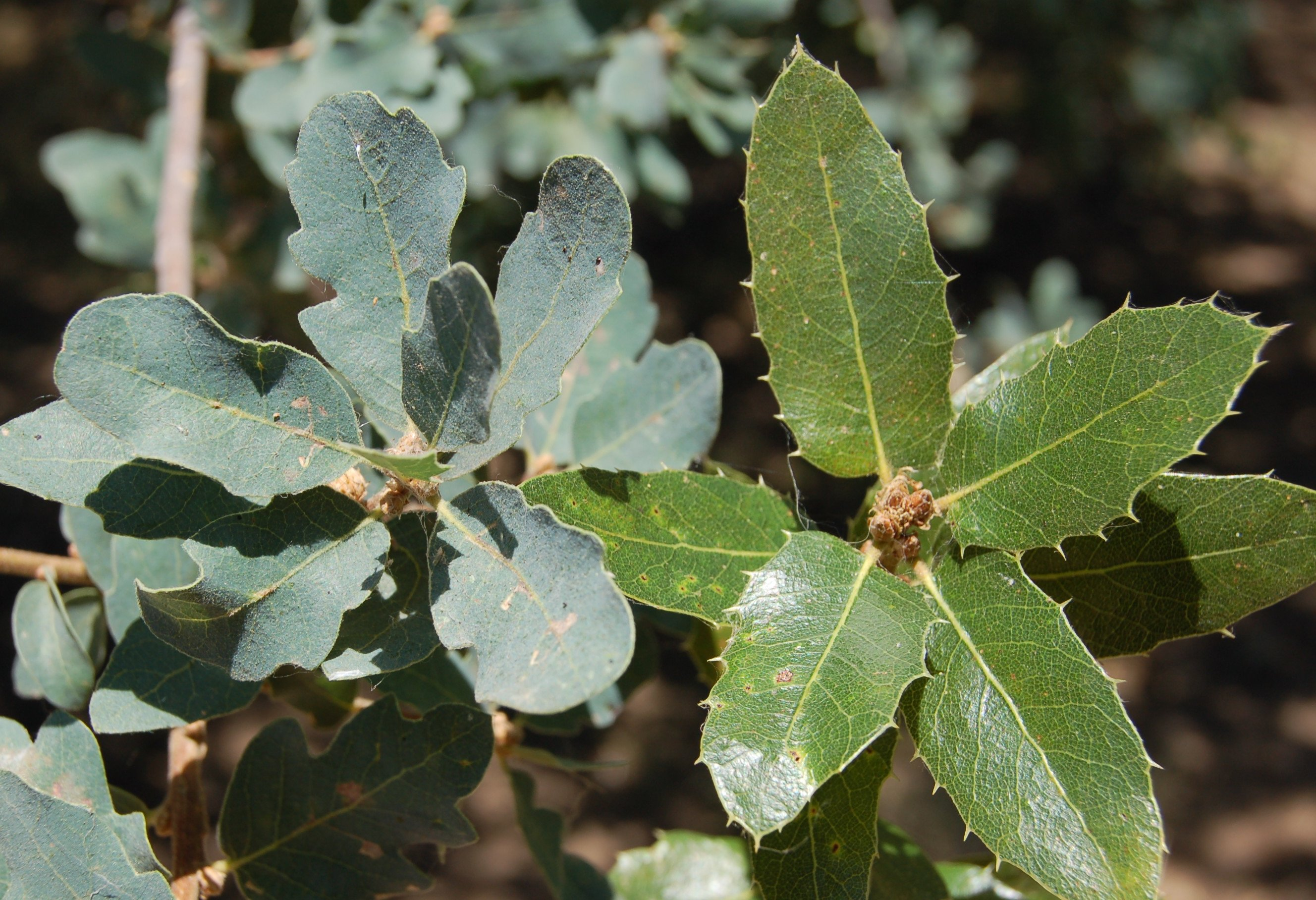 Leaf clusters of the Blue Oak (Quercus douglasii) (left), and the Canyon Live Oak (Quercus chrysolepis) (right) — for comparison. Sierra Nevada foothills, Mariposa County, California.